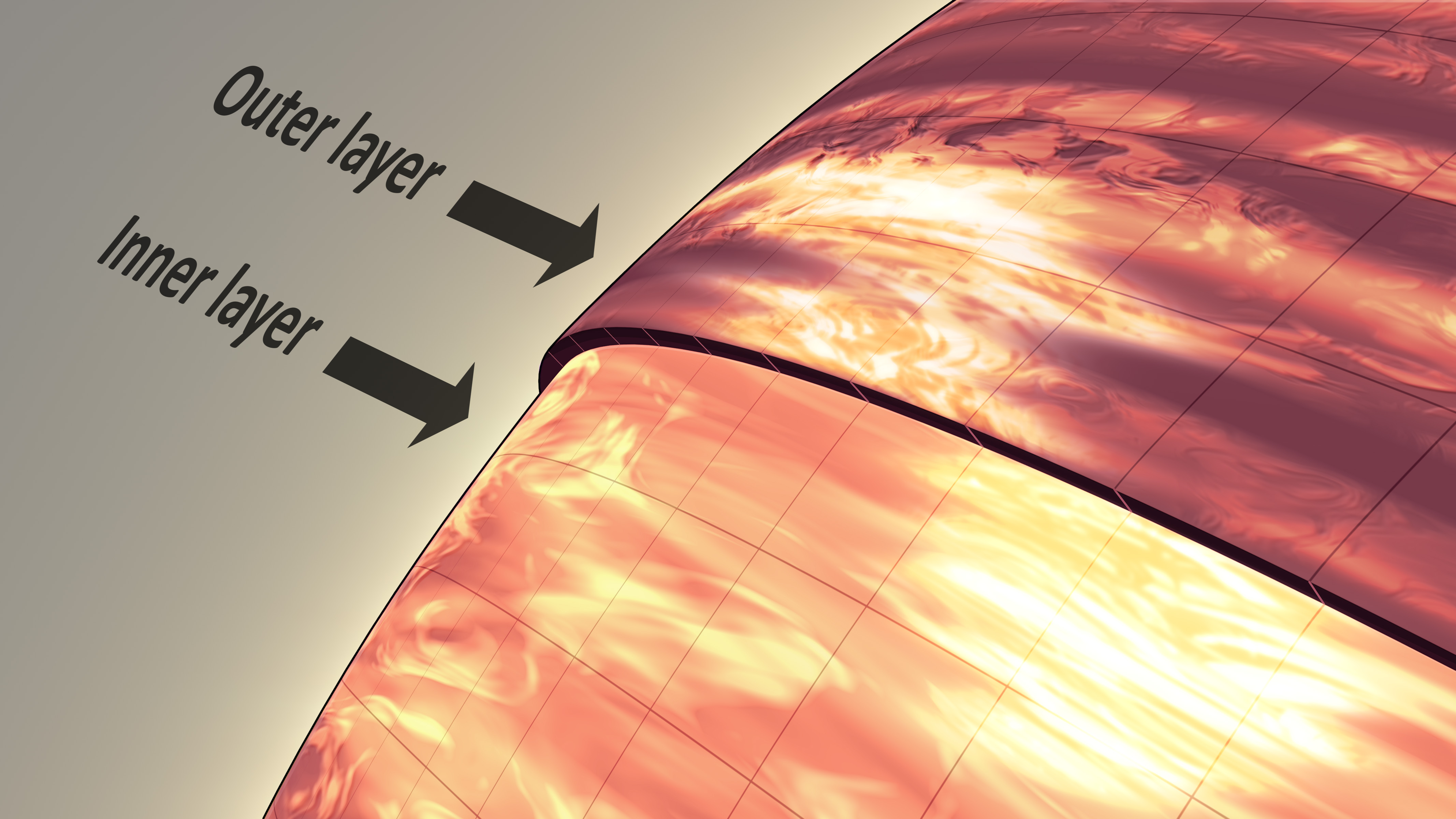 This artist's illustration shows the atmosphere of a brown dwarf called 2MASSJ22282889-431026, which was observed simultaneously by NASA's Spitzer and Hubble space telescopes. The results were unexpected, revealing offset layers of material as indicated in the diagram. For example, the large, bright patch in the outer layer has shifted to the right in the inner layer. The observations indicate this brown dwarf -- a ball of gas that "failed" to become a star -- is marked by wind-driven, planet-size clouds. The observations were made using different wavelength of light: Hubble sees infrared light from deeper in the object, while Spitzer sees longer-wavelength infrared light from the outermost surface. Both telescopes watched the brown dwarf as it rotated every 1.4 hours, changing in brightness as brighter or darker patches turned into the visible hemisphere. At each observed wavelength, the timing of the changes in brightness was offset, or out of phase, indicating the shifting layers of material.